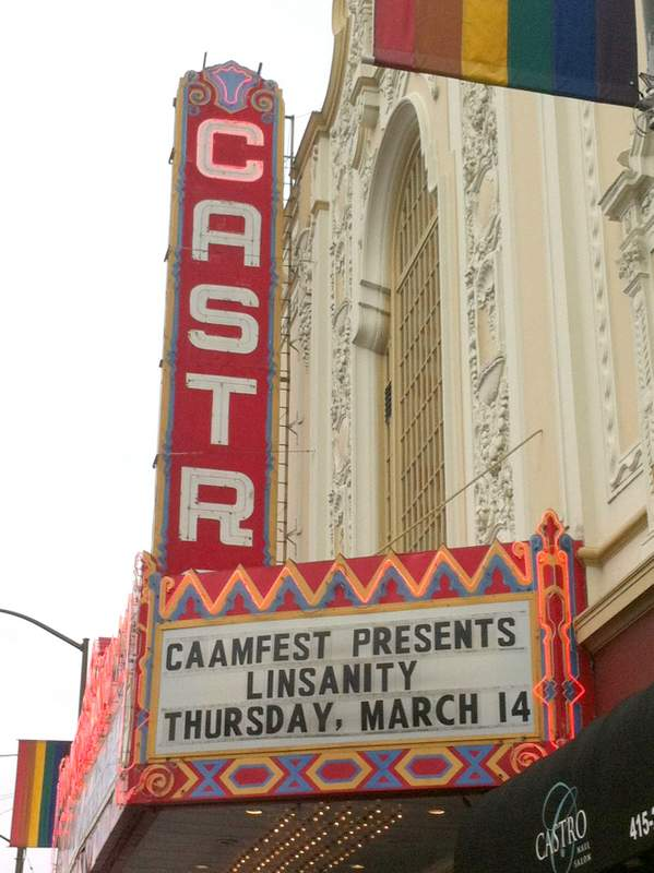 Linsanity at opening night of CAAMFest in 2013 at Castro Theatre in San Francisco.